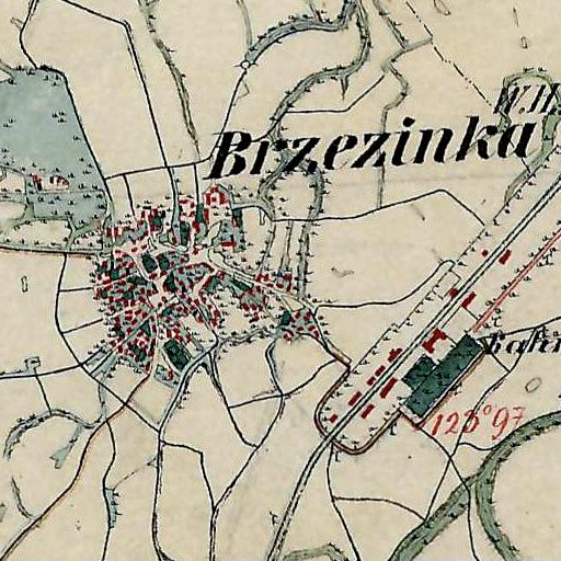 1869 in Brzezinka